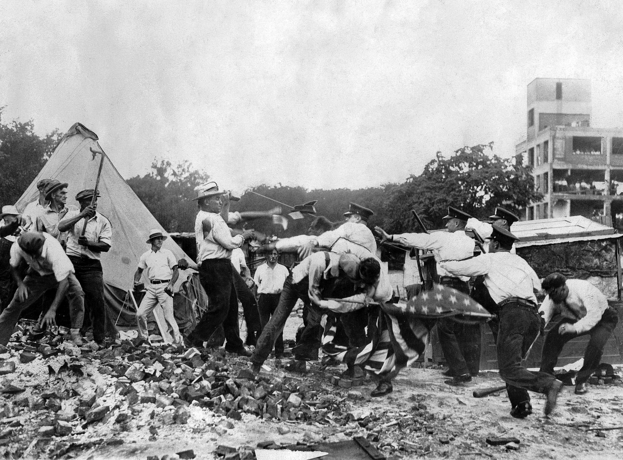 Photograph of Bonus Marchers. 1932